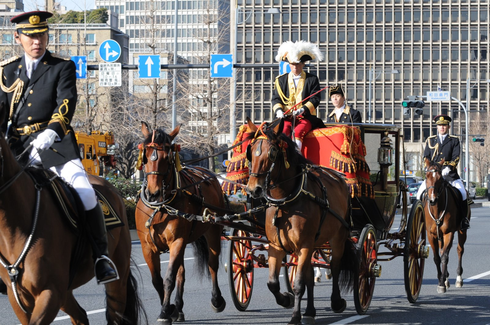 The carriage for the Ceremony of the Presentation of Credentials going through the Imperial Palace Plaza, Tokyo, Japan.